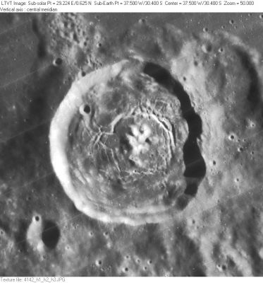 LO-IV-142H Overhead view. The 9-km diameter circular crater in the lower left is Vitello P. The large depression in the upper right is unnamed